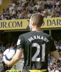 Stuart Parnaby playing for Birmingham City against Tottenham Hotspur [29/8/09]